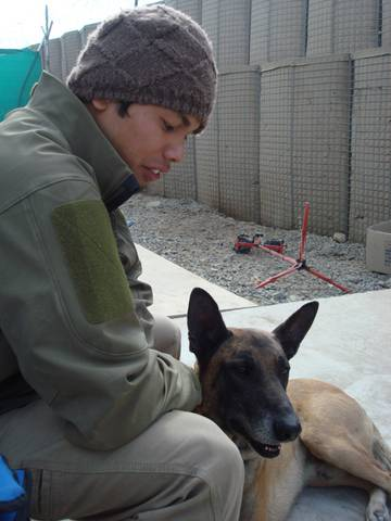 English